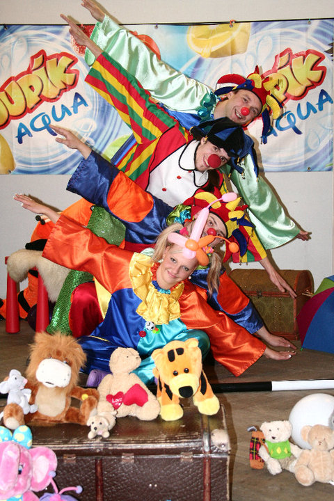 Czech clowns working in hospitals